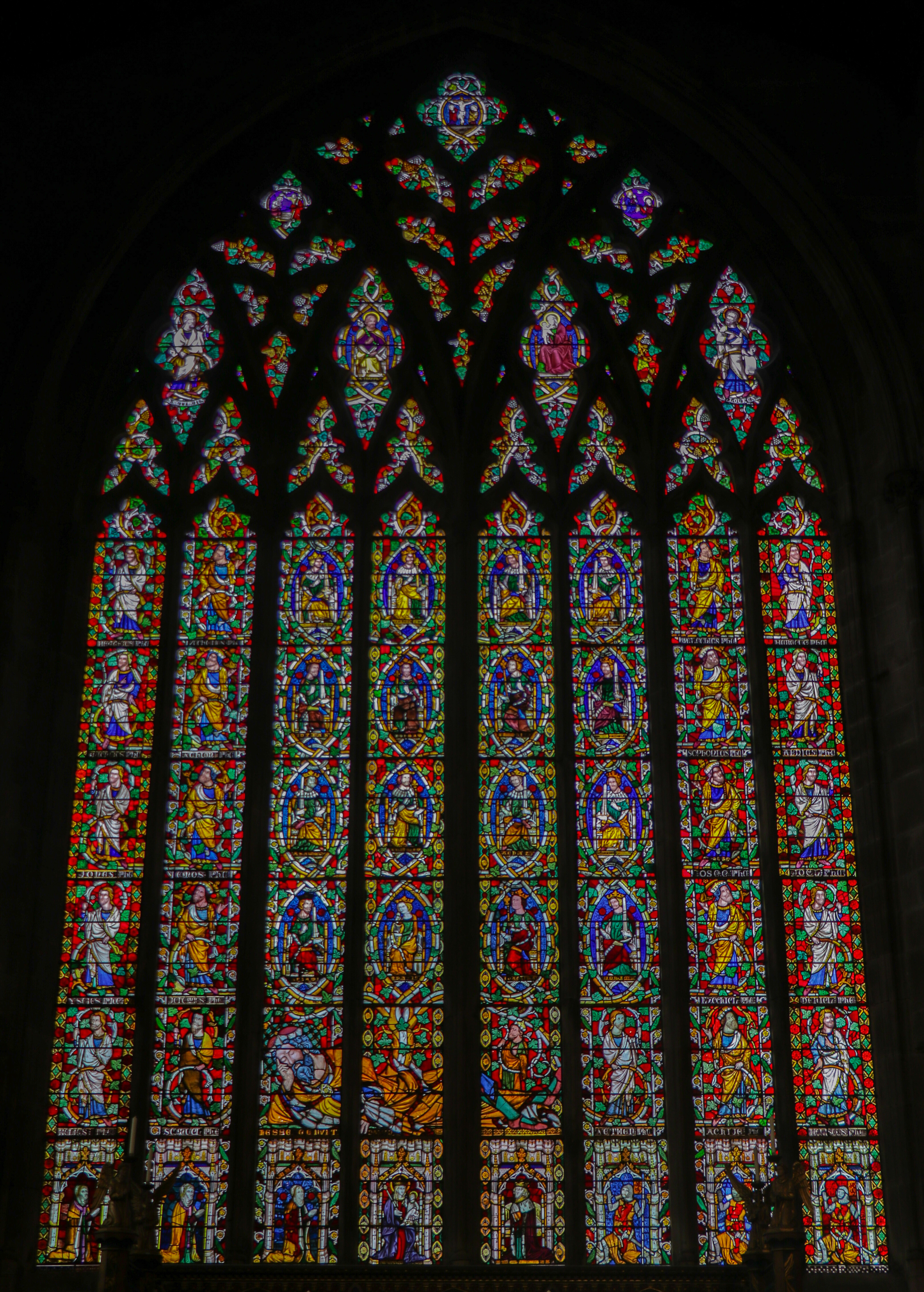 The world-famous fourteenth-century 'Jesse window'; filled with figures of Old Testament kings and prophets